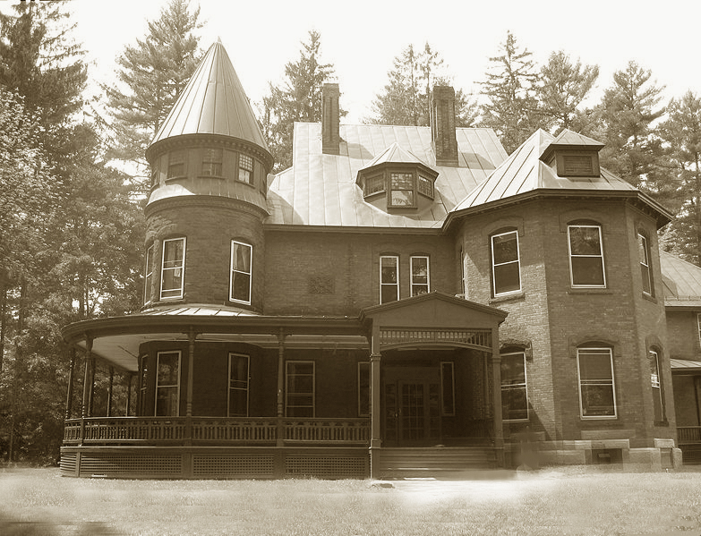 Redstone, a Queen Anne style house in Montpelier, Vermont was the first headquarters for the Vermont Department of Public Safety.